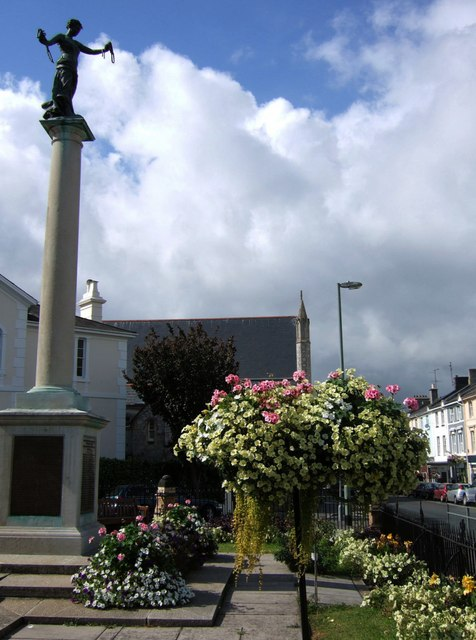 War Memorial, Newton Abbot. On her Portland stone column pillar, the bronze figure of Freedom holds broken chains. The memorial dates from 1922. for more details. The memorial is at the foot of St Paul's Road, looking down 279962. In the background is Queen Street, with St Joseph's Catholic Church.